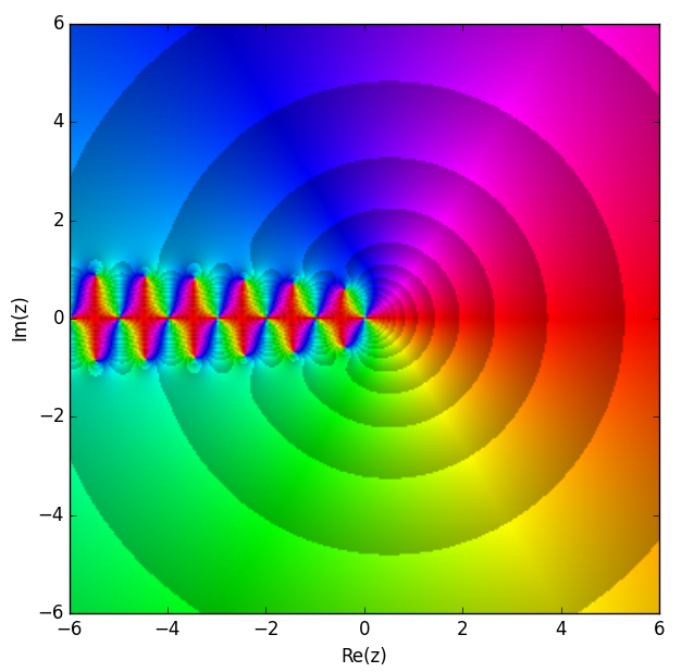 Color representation of the Trigamma function, ψ 1 ( z ) {\displaystyle \psi _{1}(z)} , in a rectangular region of the complex plane.